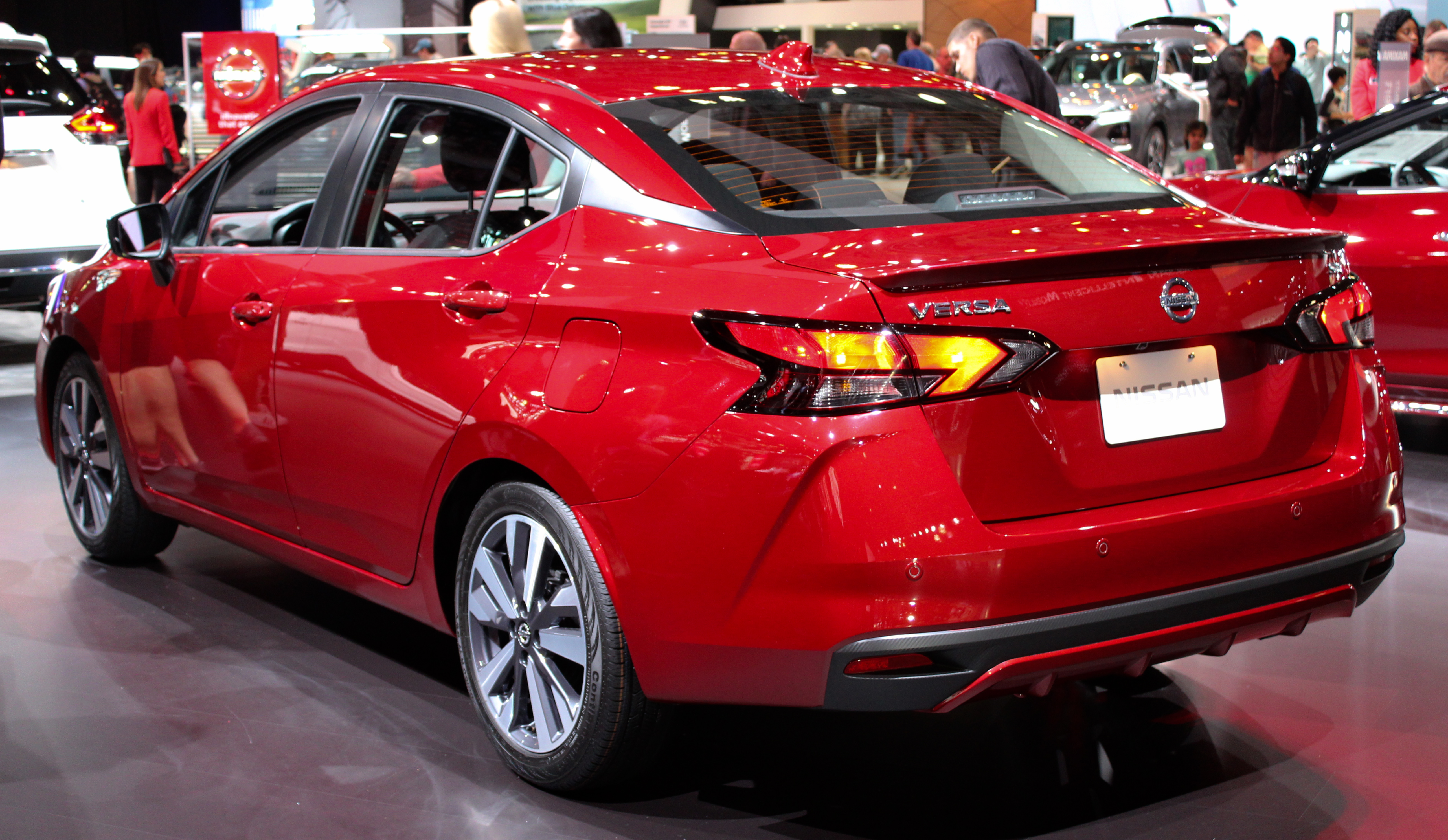 A 2020 Nissan Versa SR photographed during the 2019 New York International Auto Show, in Hudson Yards, Manhattan, NYC